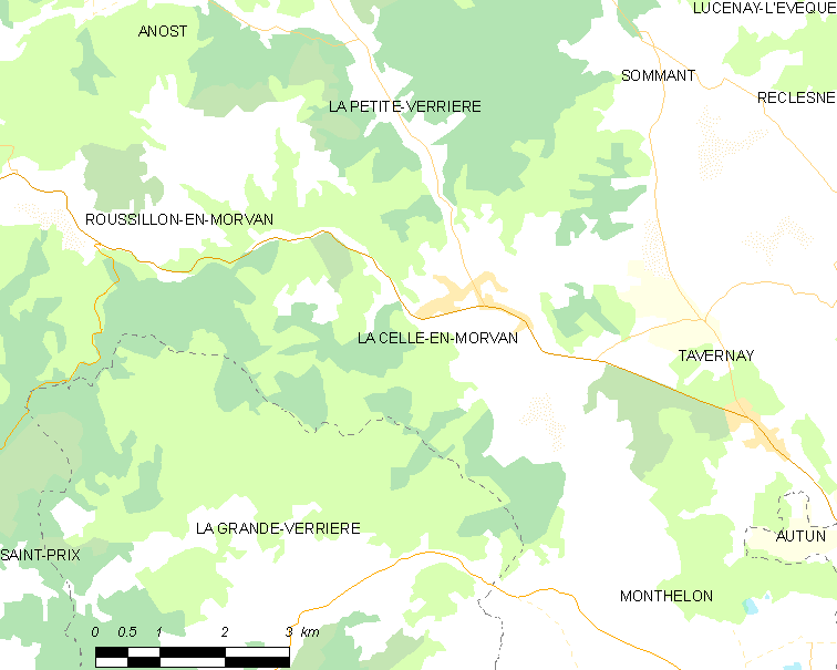 Map of French municipality